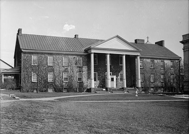 Historic American Buildings Survey, Charles M. Stotz, Photographer March 15, 1934 FRONT ELEVATION (TOWARD CAMPUS). HABS PA,63-WASH,3-1